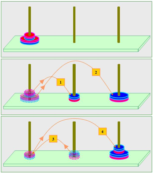 Solution of a two-disk MToH puzzle detailed